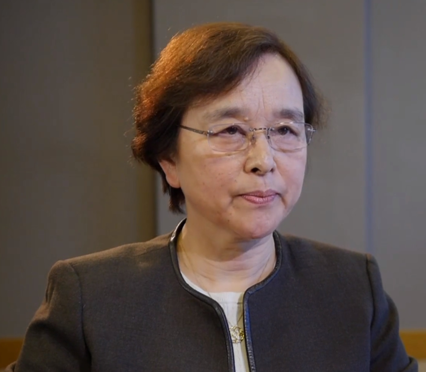 METROLOGY HUB - Prof Jane Jiang - EPSRC Manufacturing Hub